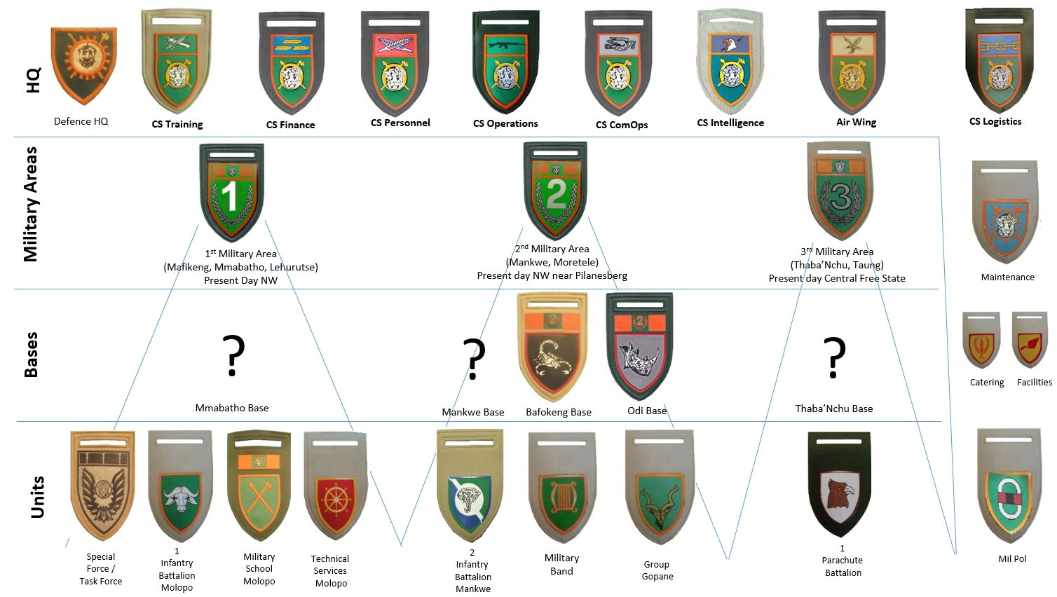 Bophuthatswana Defence Force Tupper Flash Structure